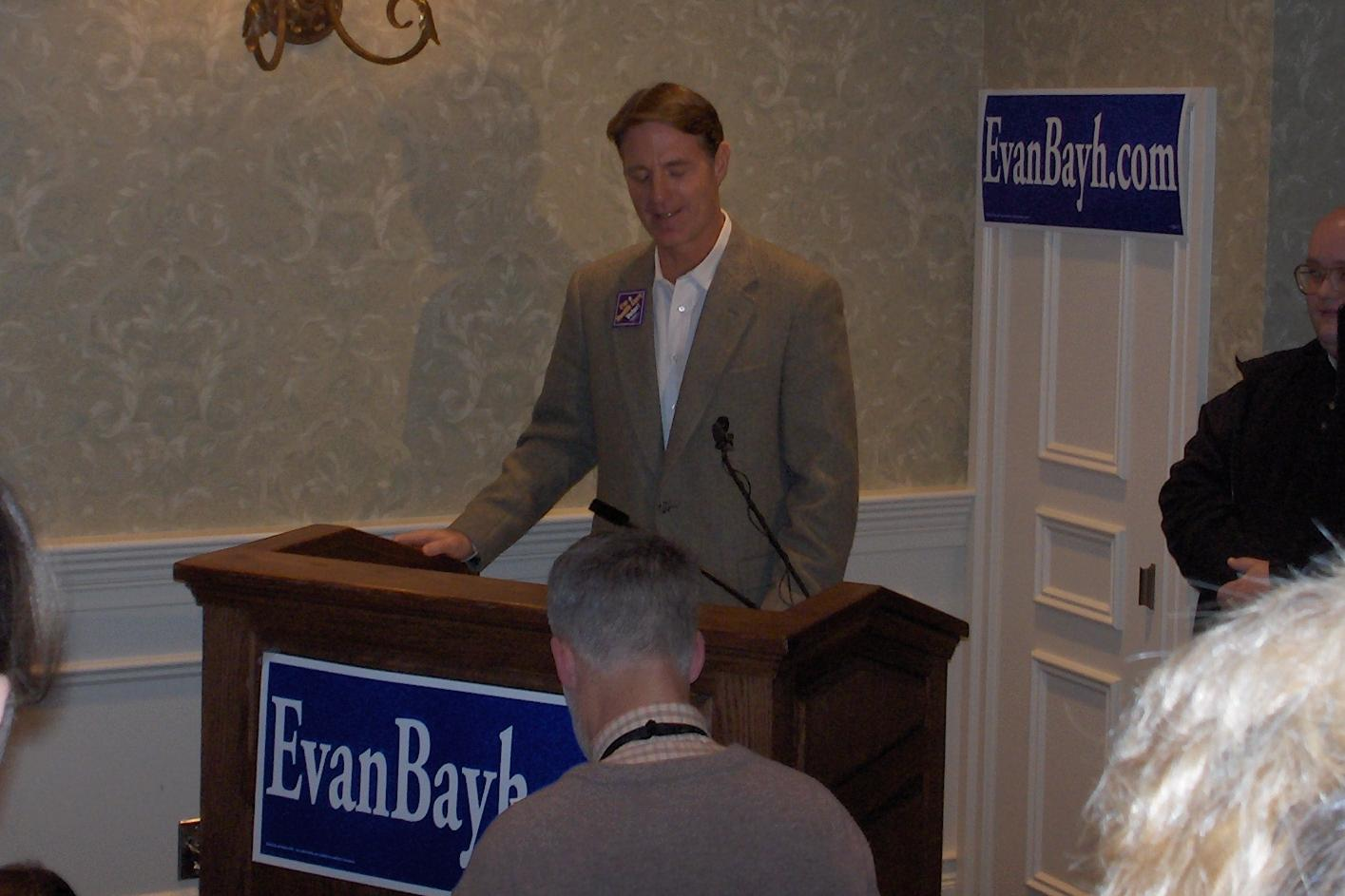 Bayh delivers his campaign stump speech on December 10, 2006